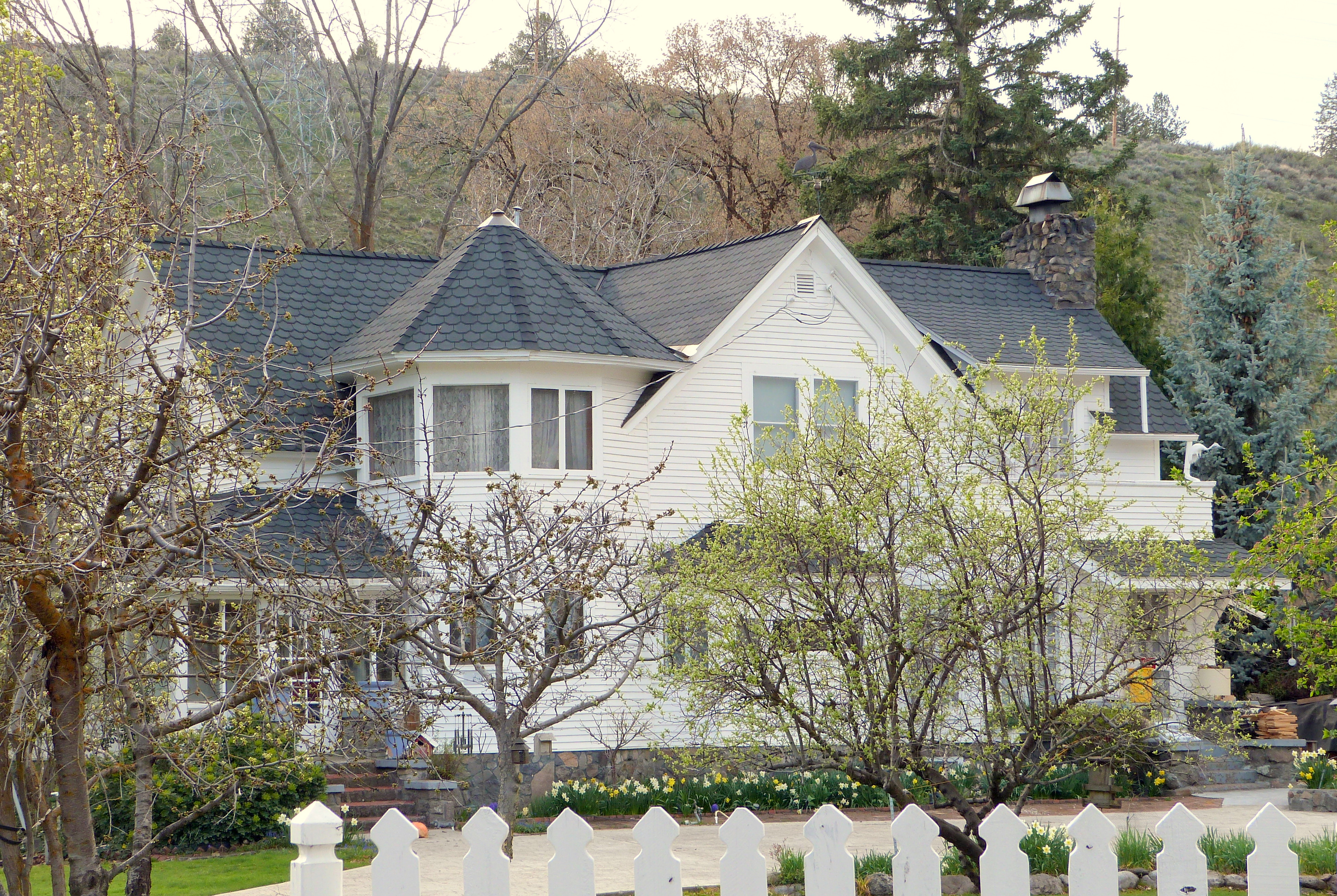 The historic Richardson–Ulrich House (built 1885), located at 636 Conger Avenue in Klamath Falls, Oregon, United States, is listed on the US National Register of Historic Places.